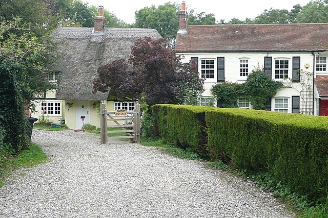 Houses at Bucklebury Alley The type of houses that are hidden away in this hamlet of Bucklebury Alley.